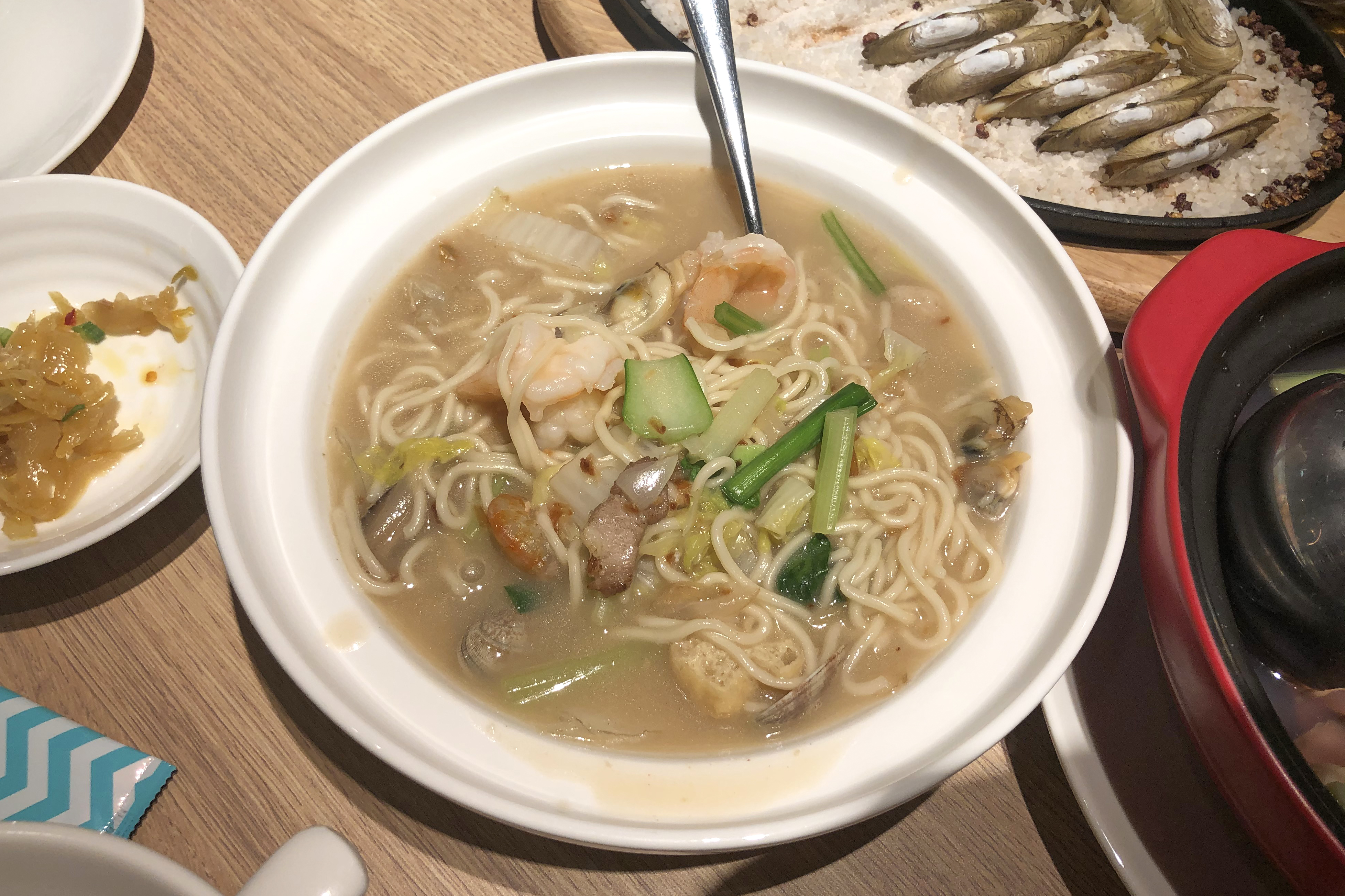 More seafood than that in Shuangqiao.